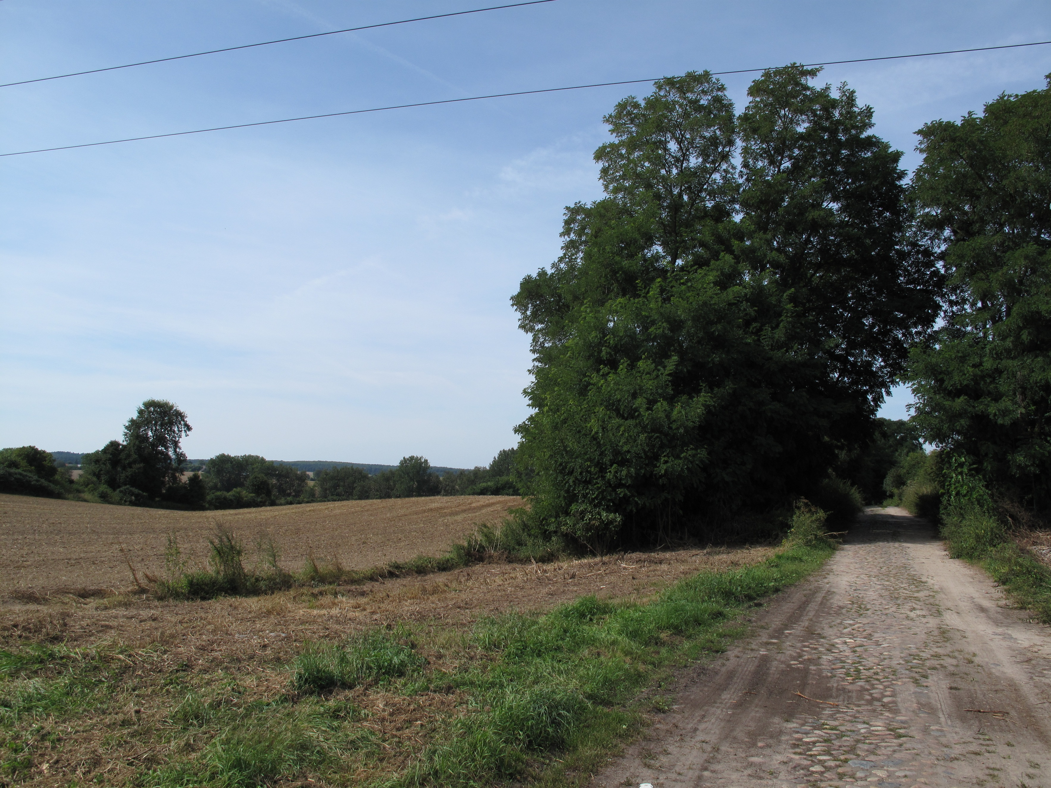 Flat Barnim-landscape in the southern area of Grunow. The village Grunow is a civil parish (Ortsteil) of the municipality Oberbarnim in the District Märkisch-Oderland, Brandenburg, Germany. Grunow was first mentioned in written documents in 1315 and is situated on the Barnim Plateau in the Märkische Schweiz Nature Park. In 2010 the village had about 350 inhabitants (incl. it’s part Ernsthof). Due to its fieldstone-Builsdings and –streets Grunow is a part of the Oberbarnimer Feldsteinroute, a 41,5 kilometers long walking and bike trail in the traces of the building material fieldstone.